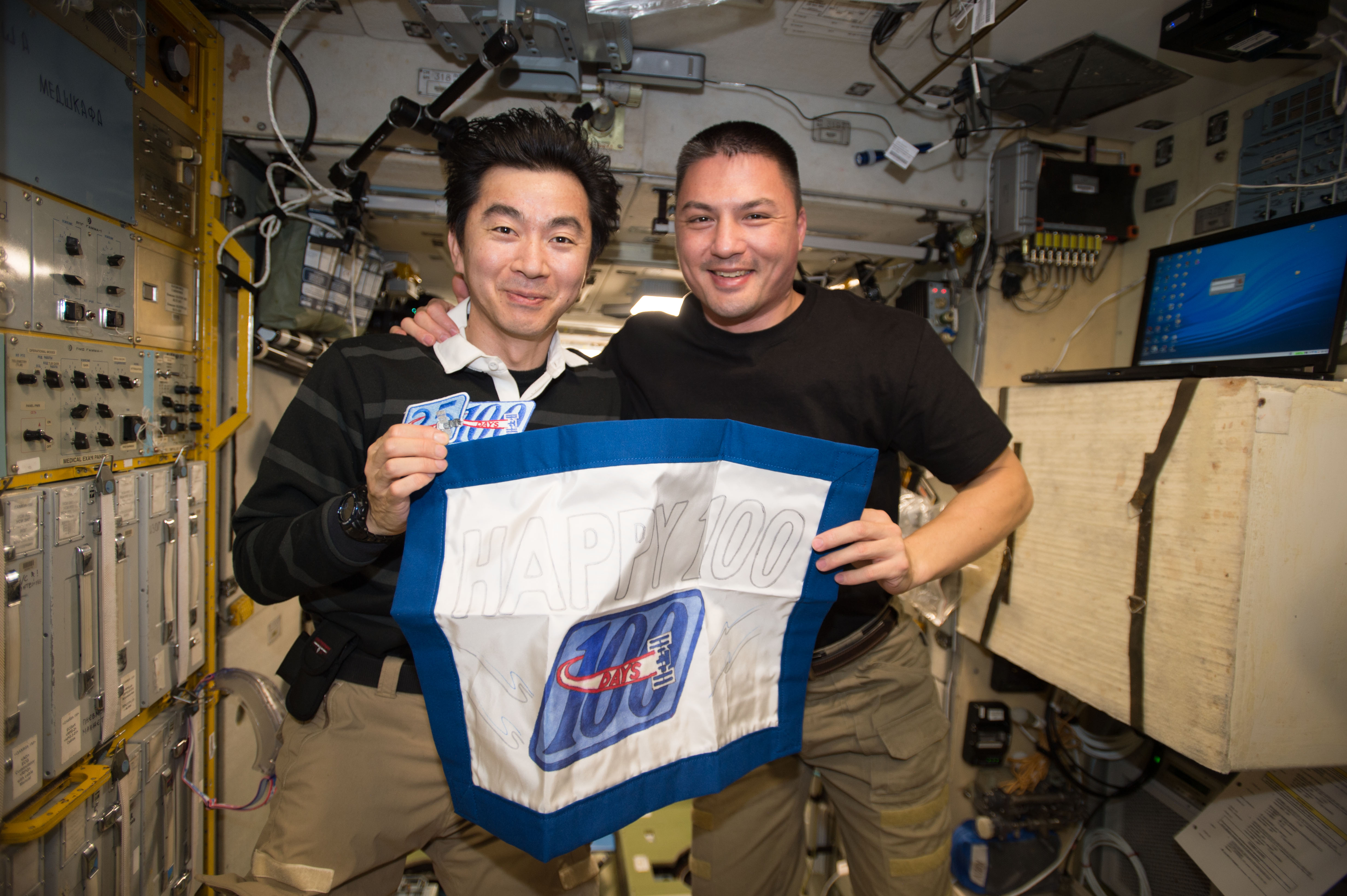 Japanese astronaut Kimiya Yui (left) and NASA astronaut Kjell Lindgren (right) celebrate 100 days in space. The pair received a commemorative patches for the milestone, along with one for their role as Soyuz crewmembers. The two first time spacefliers arrived at the International Space Station on July 22, 2015.